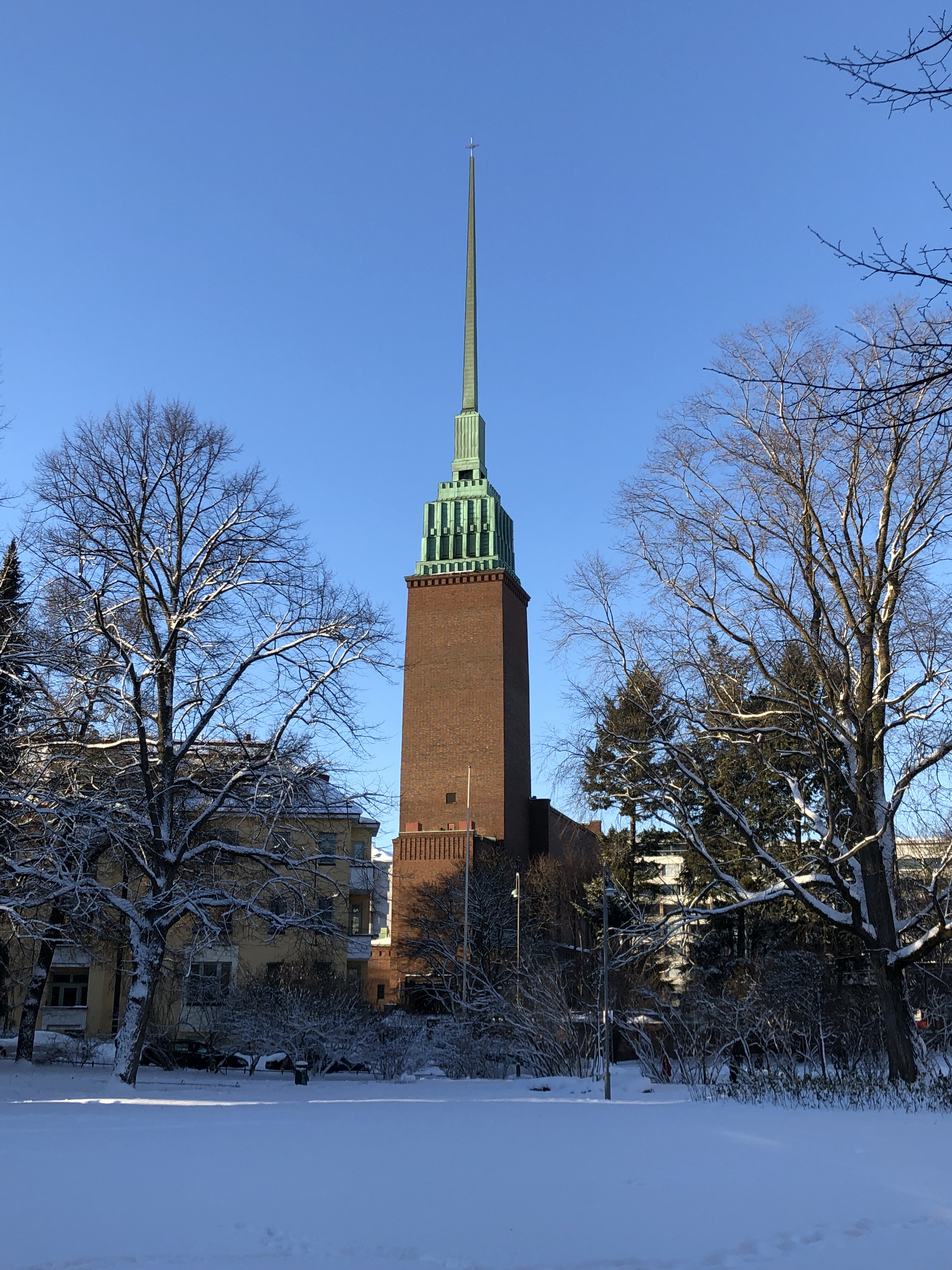 Mikael Agricola Church in February 2019.